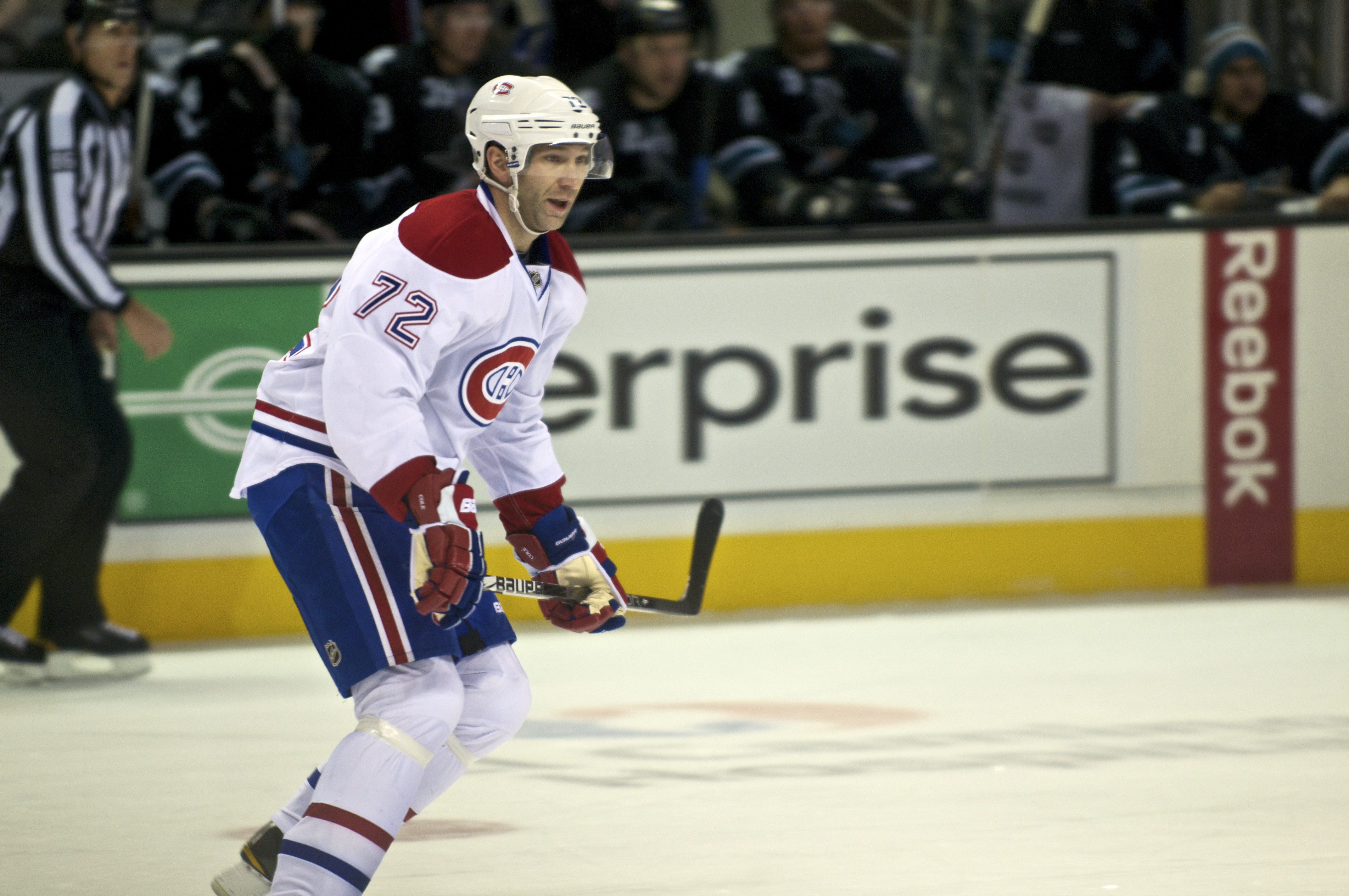 Erik Cole during a the game at the San Jose HP Pavilion between the San Jose Sharks and the Montreal Canadiens on 12/1/2011.